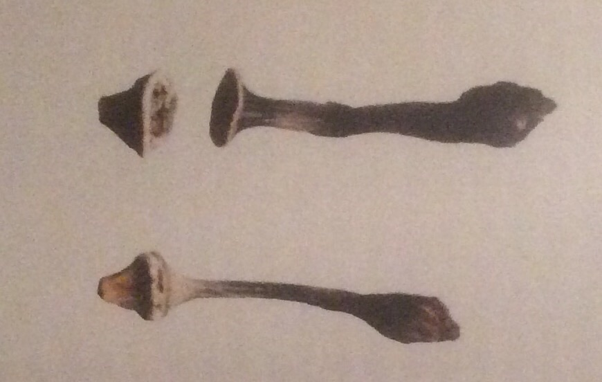 Fruits of Siccobaccatus dolichospermaticus